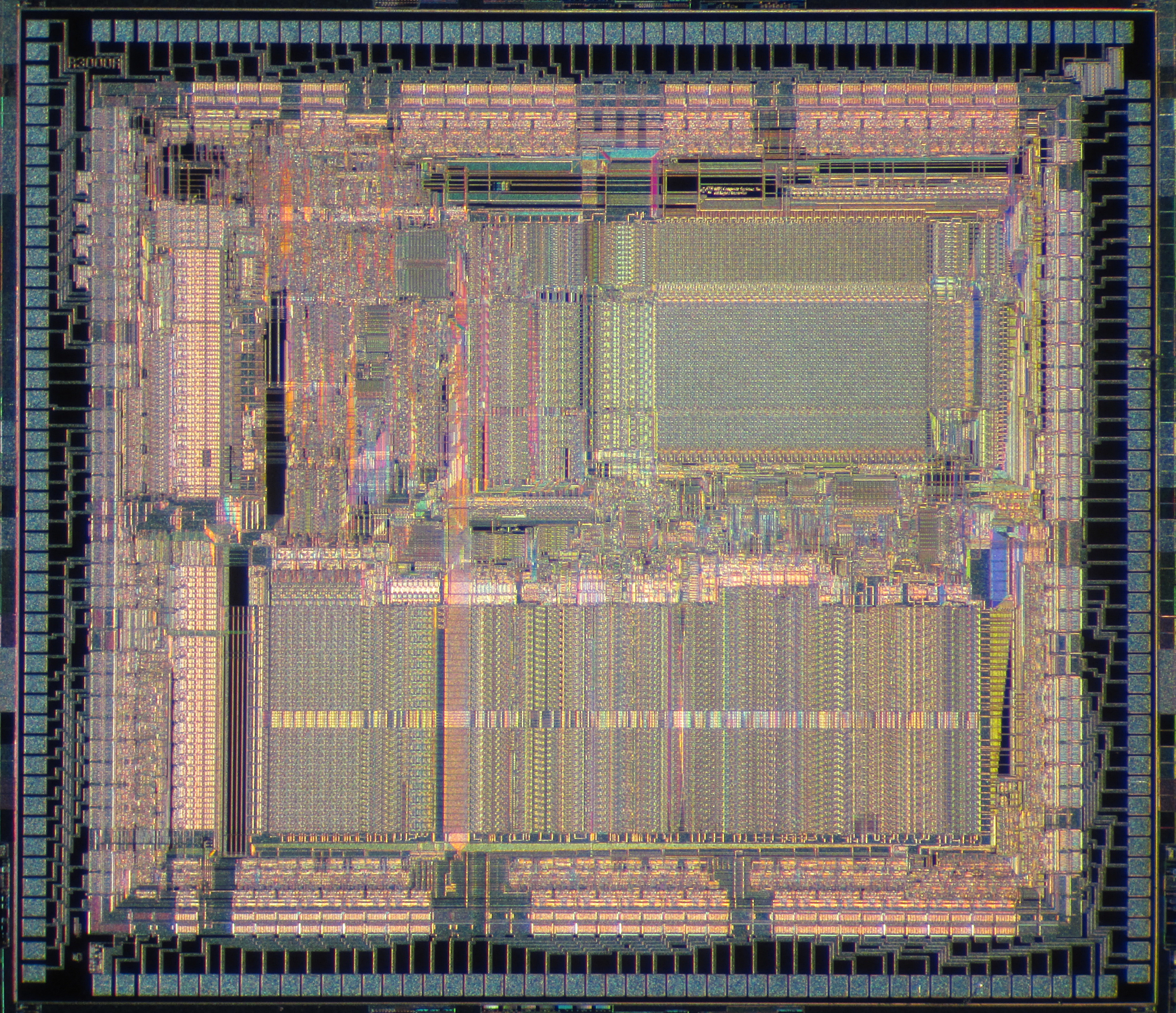 Die shot of MIPS R3000A microprocessor on wafer.